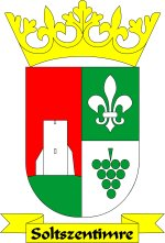 Coat of arms of Soltszentimre, Hungary